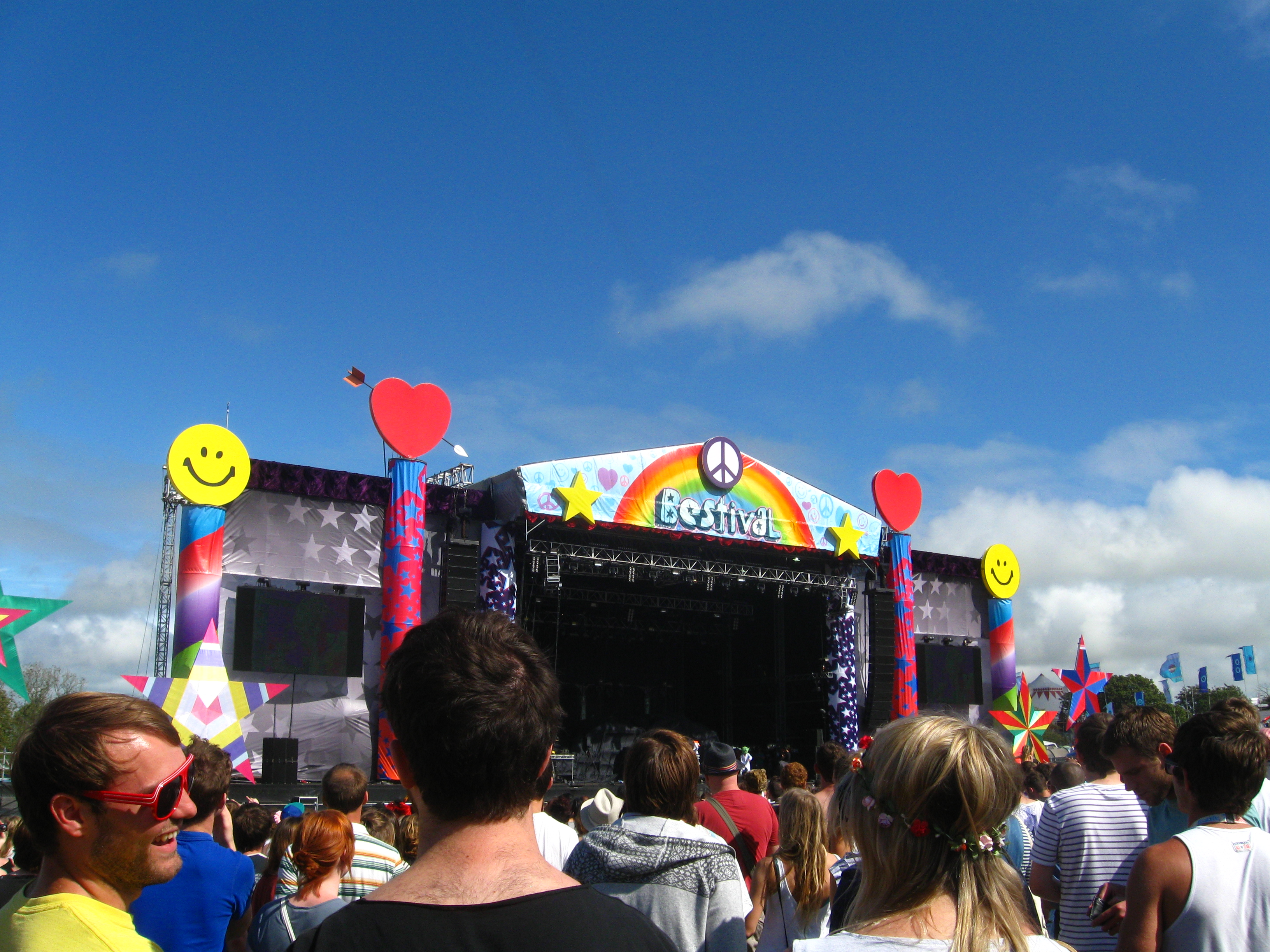 The main stage of the Bestival 2011, held on the Isle of Wight.